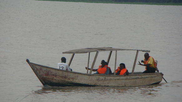 Boat ride in Kisumu